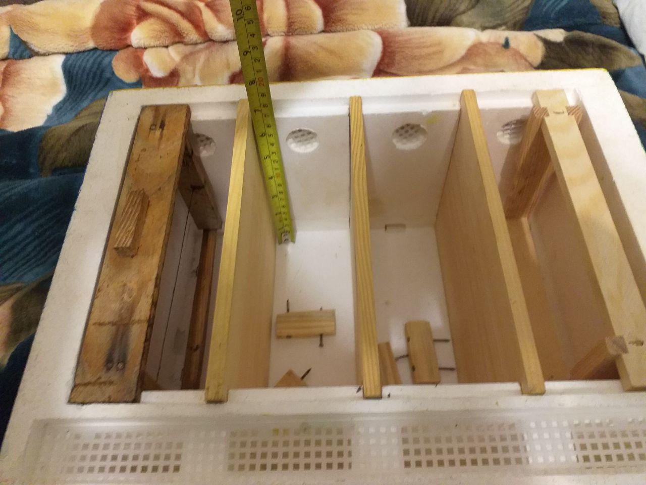 Нуклеус 4 місний вигляд в середині